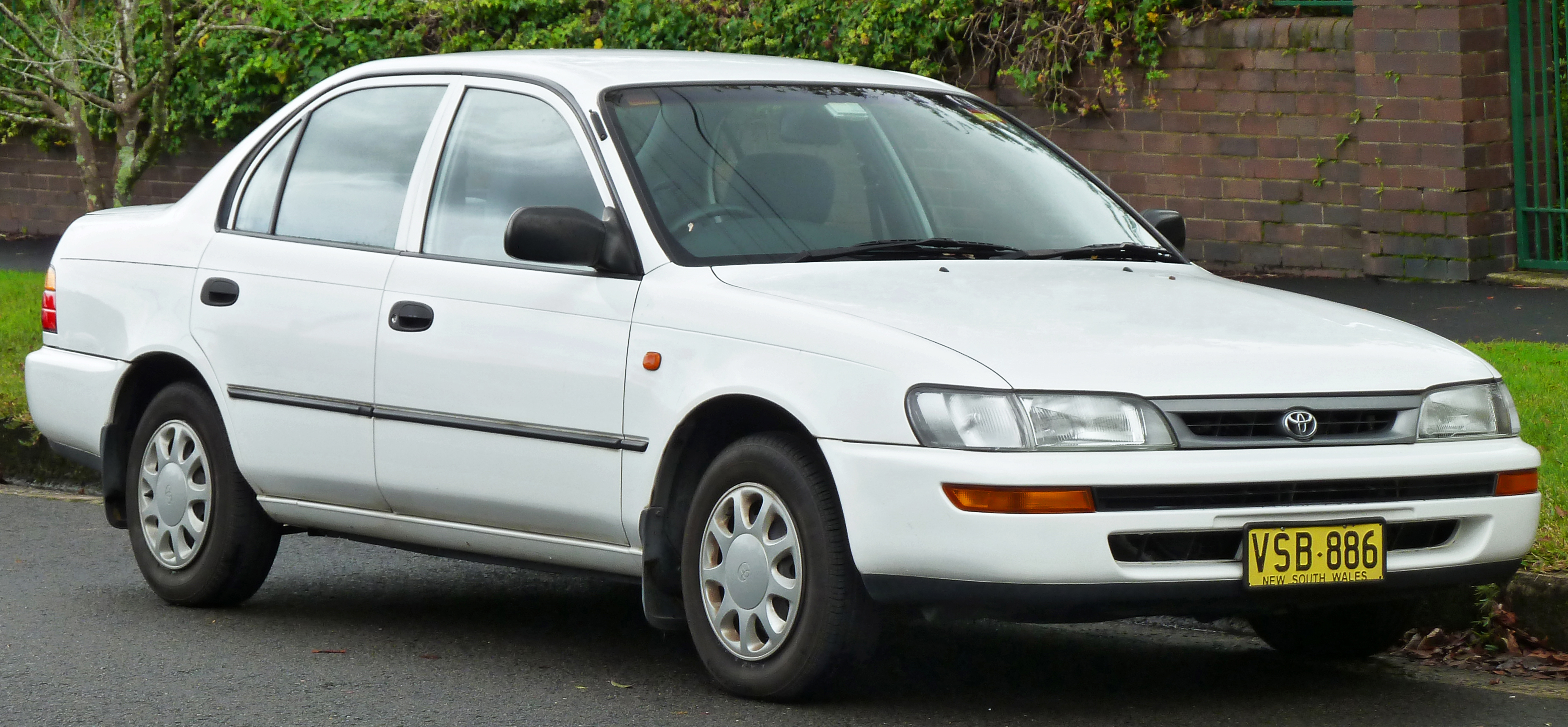 1999 Toyota Corolla (AE101R) CSi sedan. Photographed in Gordon, New South Wales, Australia.